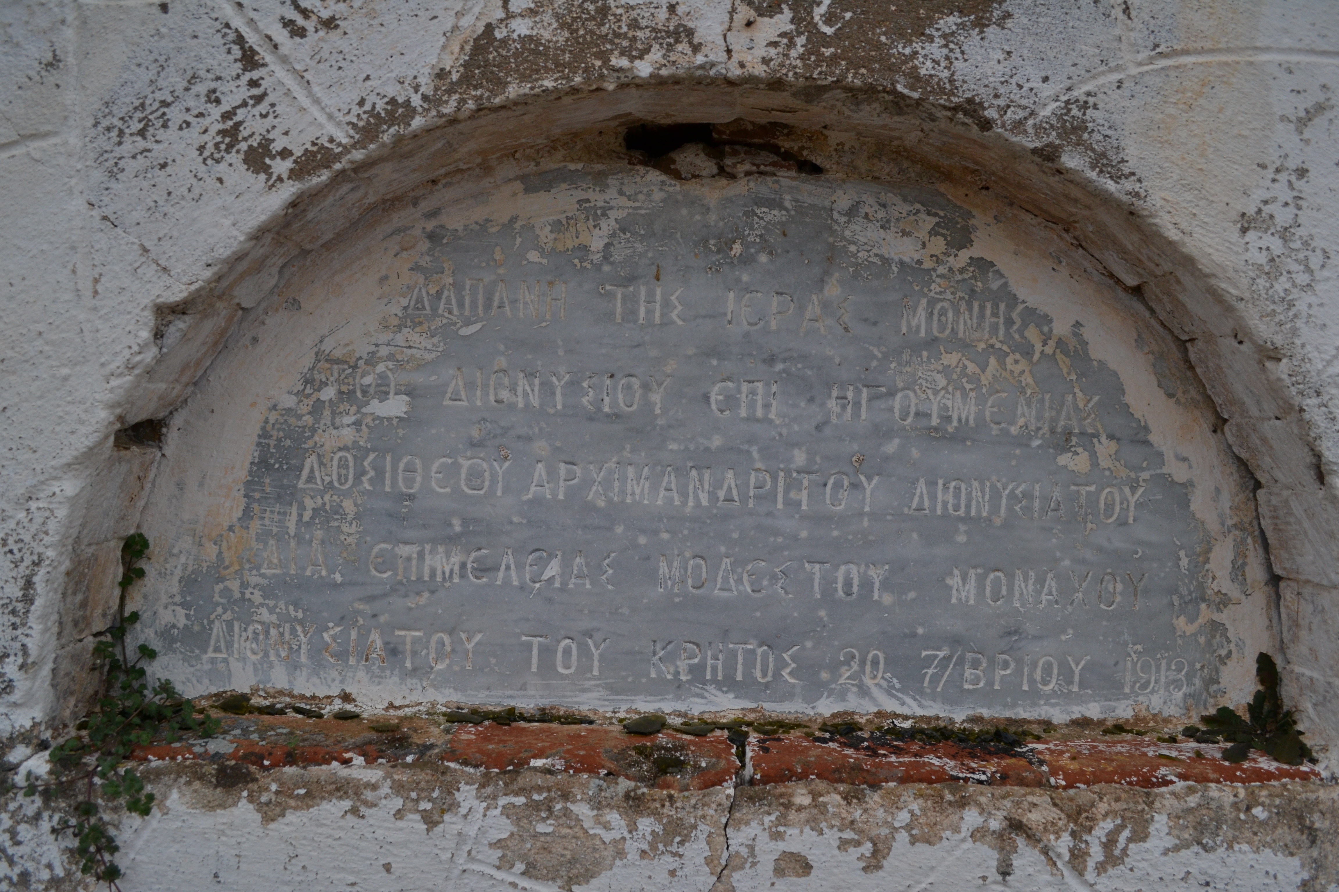 Photo of springs of monks outside of the village of Dionysou at Halkidiki